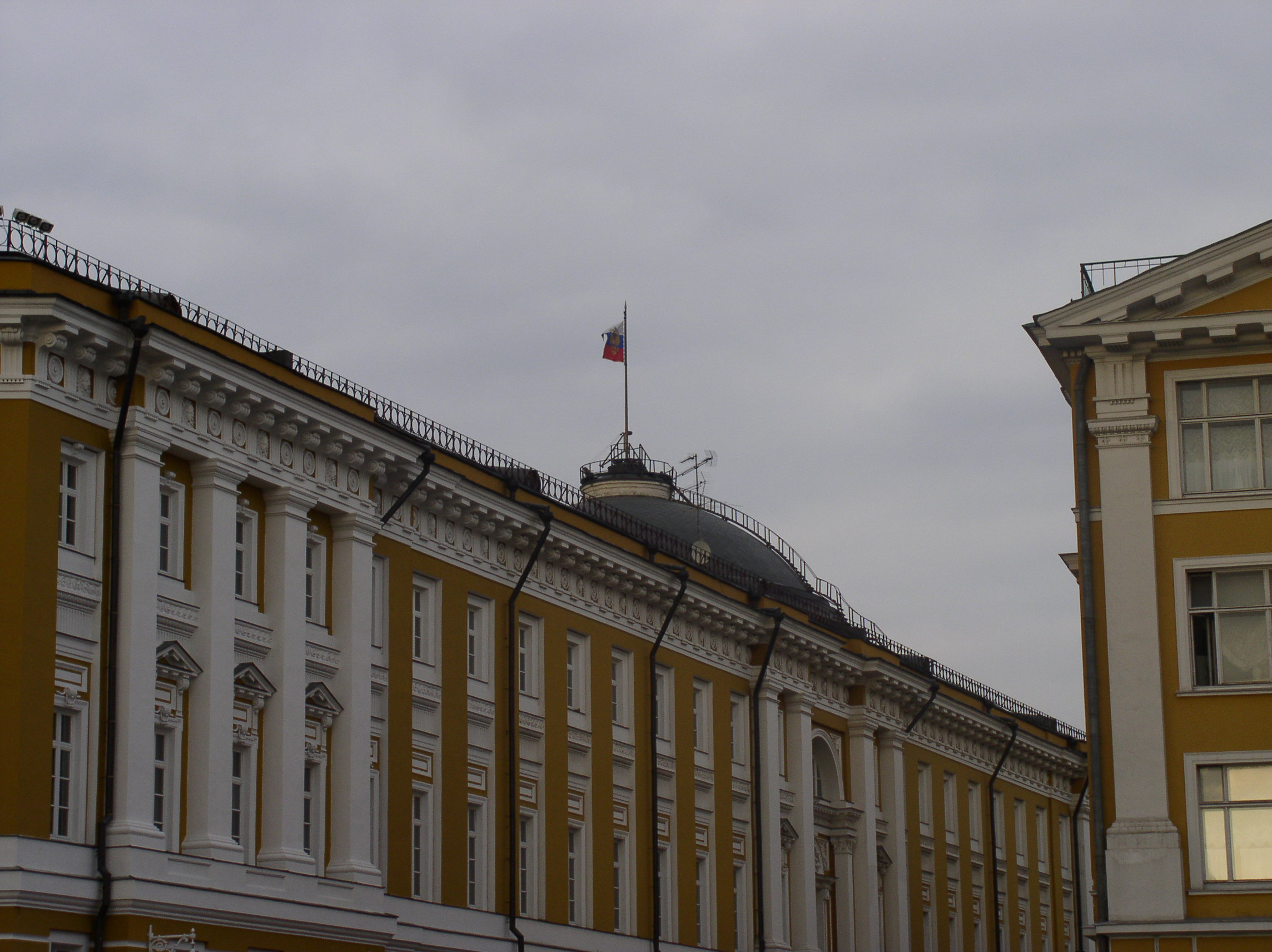 Senate. Moscow, Russia.